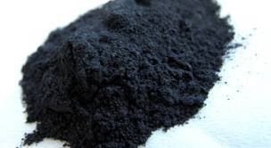 مسحوق كحل الاثمد